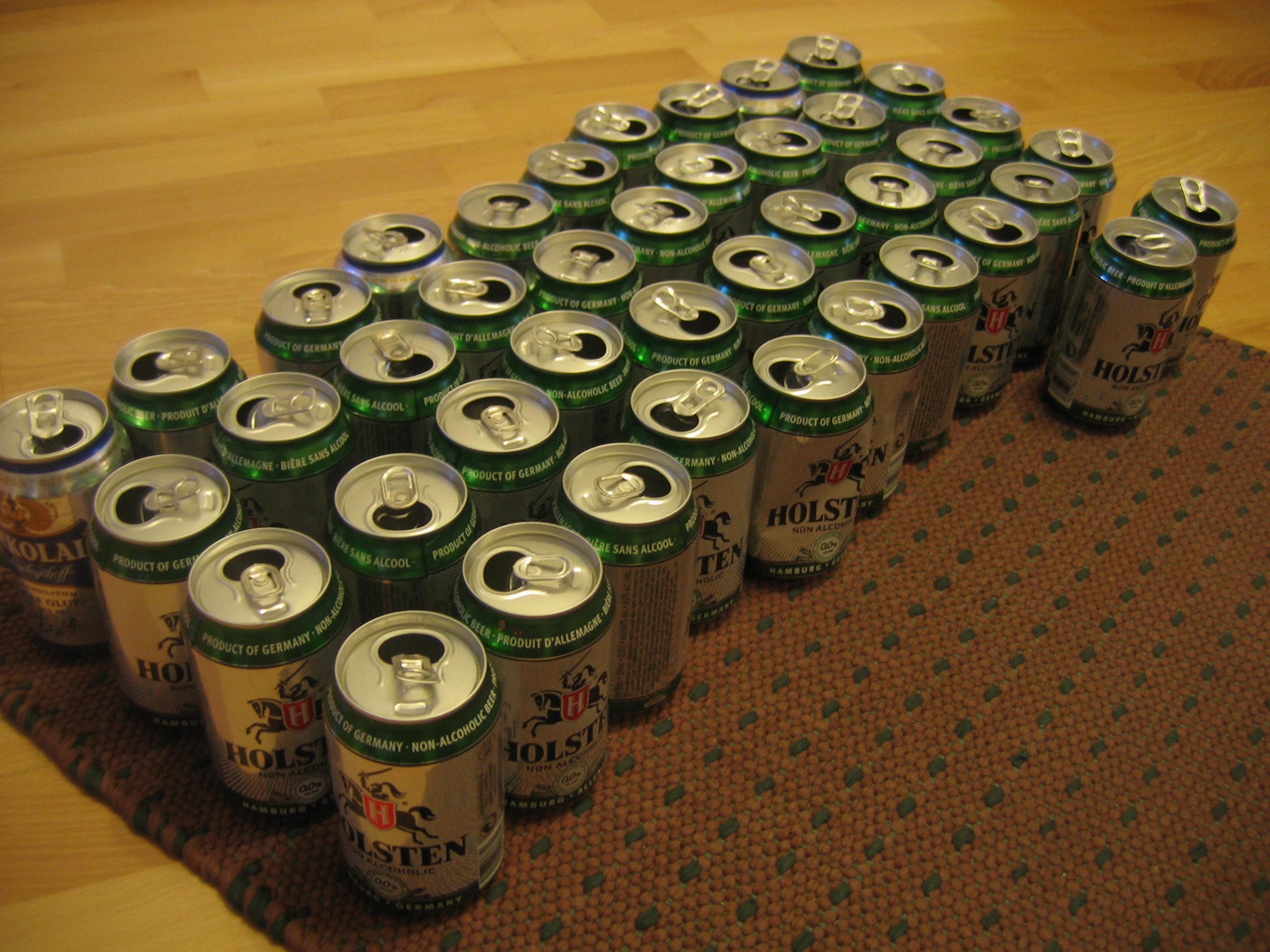 Forty-two empty non-alcoholic beer cans